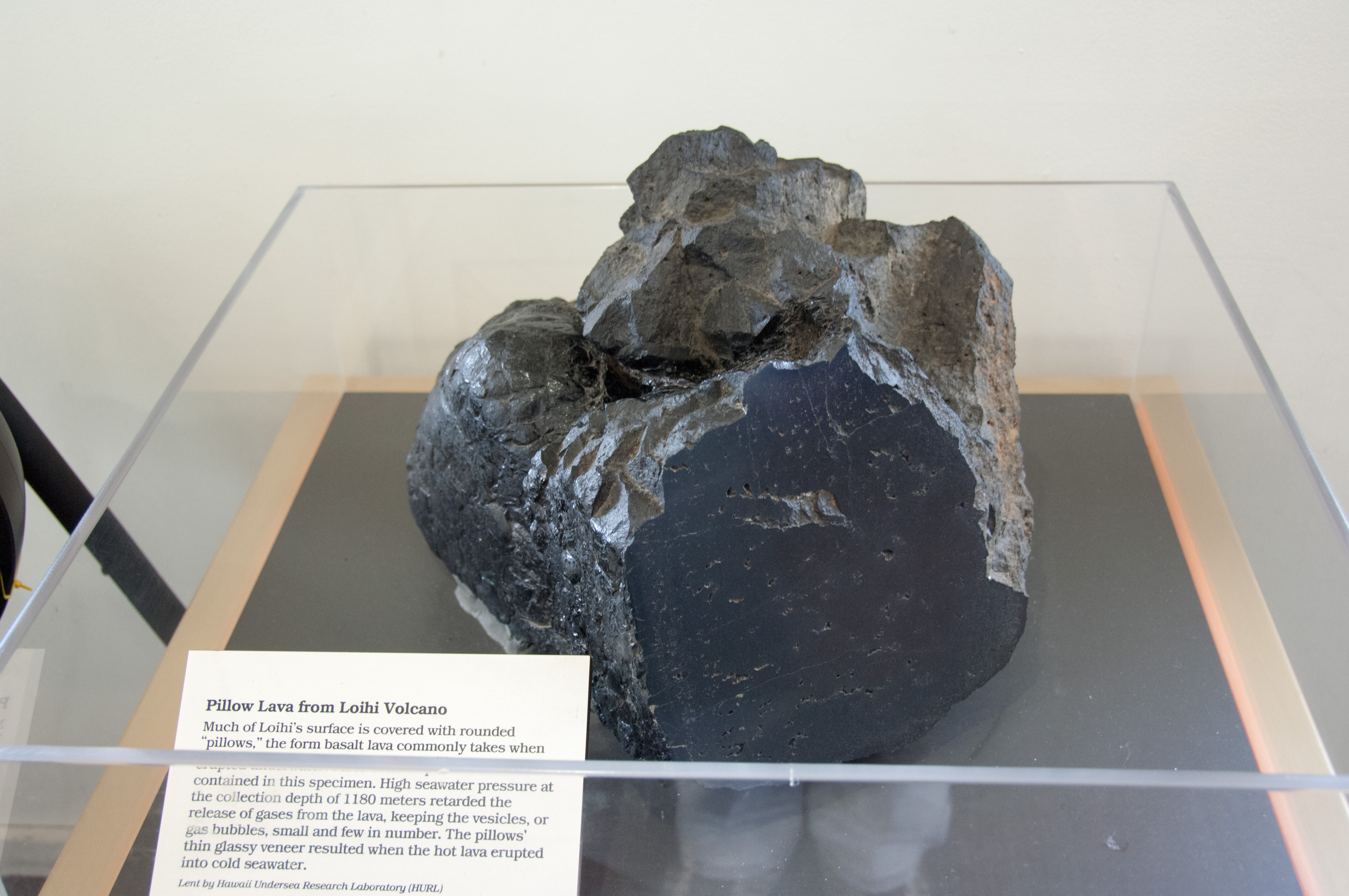 Pillow lava from Loihi Seamount in Hawaii, USA. This sample is made of basalt and it was collected at 1180 metres below sea level.